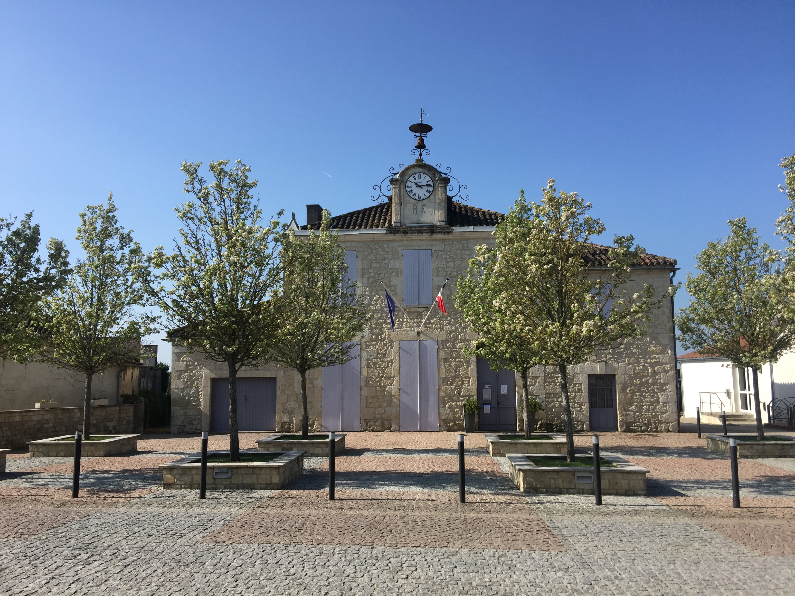 Town Hall in Caussens (near Condom), Gers, France